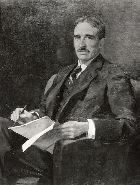 William Sloane Coffin Artist: Ellen Emmet Rand (1875–1941) Alternative names Ellen G. Emmet Rand; Ellen Gertrude Rand; Ellen Rand; Mrs. William B. Rand; Ellen Gertrude Emmet; Ellen Gertrude Emmet RandDescriptionAmerican painterDate of birth/death 4 March 1875 18 December 1941Location of birth/death San Francisco New York CityAuthority control : Q19750548 VIAF: 19562795 ISNI: 0000 0000 6704 499X ULAN: 500021380 LCCN: nr94026863 NAID: 10575594 WorldCat creator QS:P170,Q19750548 Date:1934 Medium:Oil on canvas Dimensions:43 x 33 in. (109.2 x 83.8 cm) Classification:Paintings Credit Line:George A. Hearn Fund, 1934